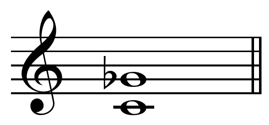 Diminished fifth on C = G♭. Just: 36:25 = 631.28 cents. Equal-tempered: 26/12:1 = 600 cents. Created by Hyacinth (talk) using Sibelius 5.